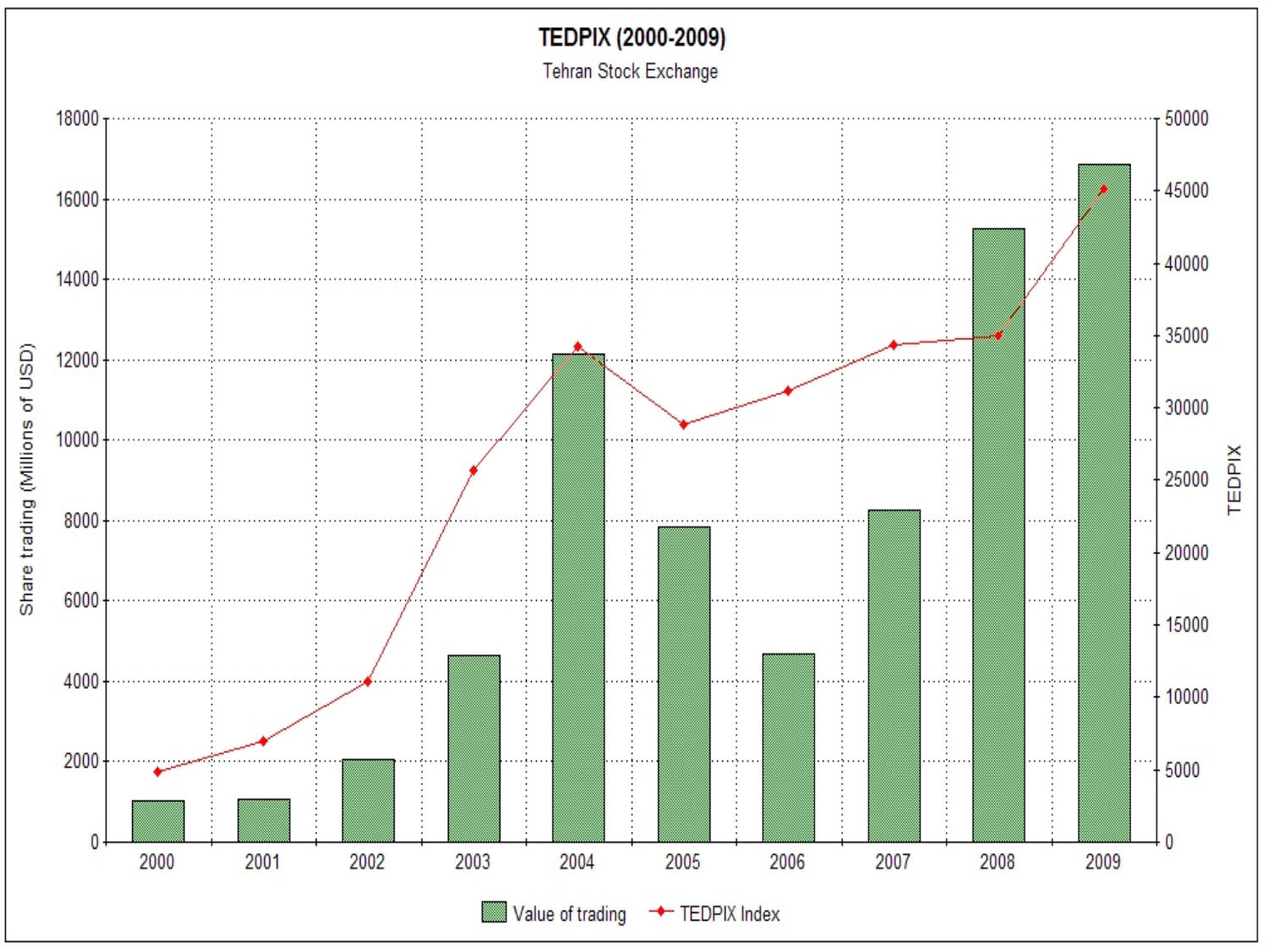 TEDPIX Index and value of share trading, Tehran Stock Exchange (2000-09). Label keys: TEDPIX is TSE's Dividend & Price "total return" Index. Nota Bene: Some notes on the chart mention TEPIX, TSE's All-Share Price Index (not to be confused with TEDPIX). Source for raw data: Tehran Stock Exchange website.